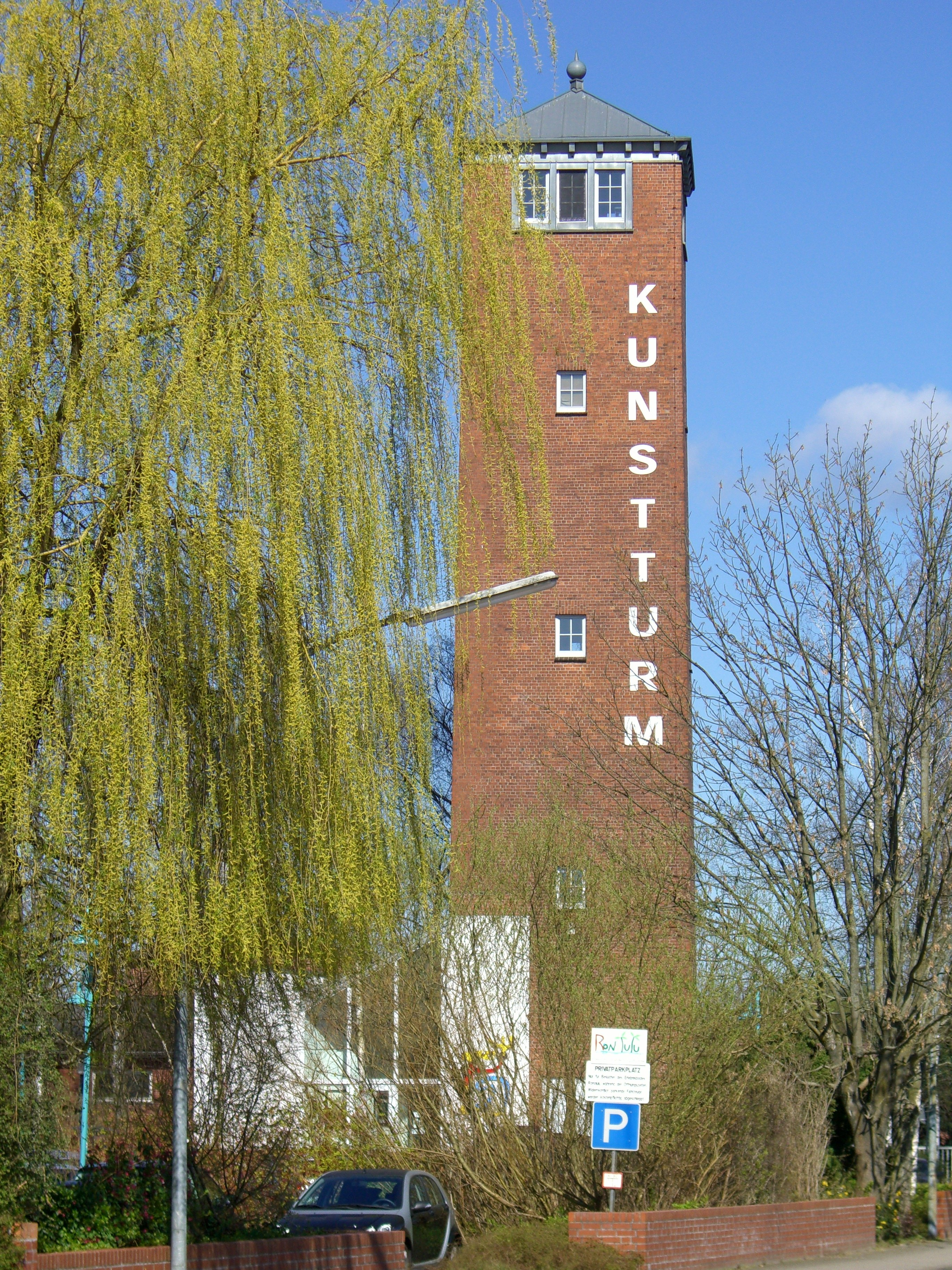 town of Rotenburg, Germany: Kunstturm (art tower) near the Wümme river. Former tower of the fire brigrade to dry hoses